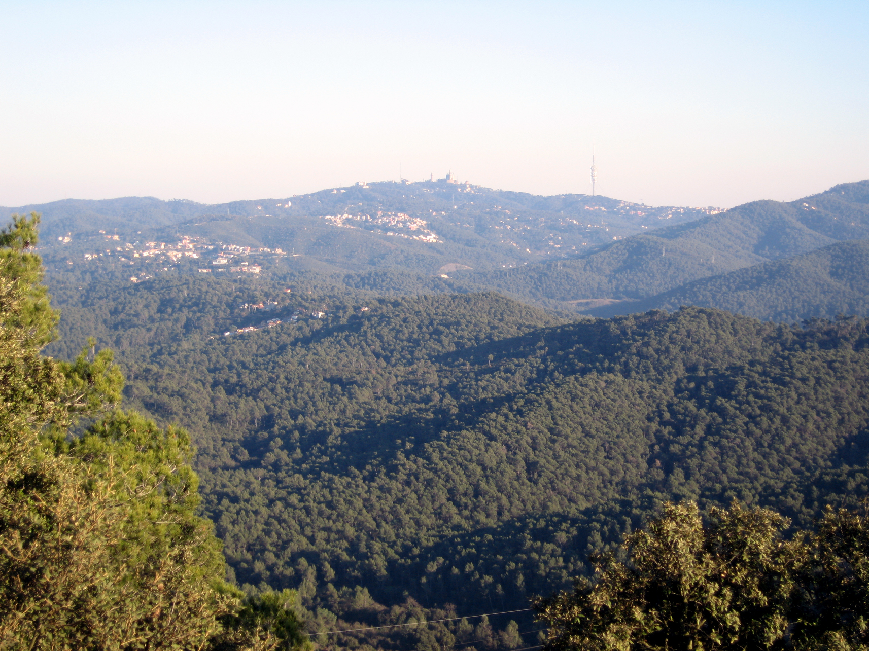 The „Serra de Collserola“ view from the Puig Madrona in direction of the Tibidabo (Catalonia).